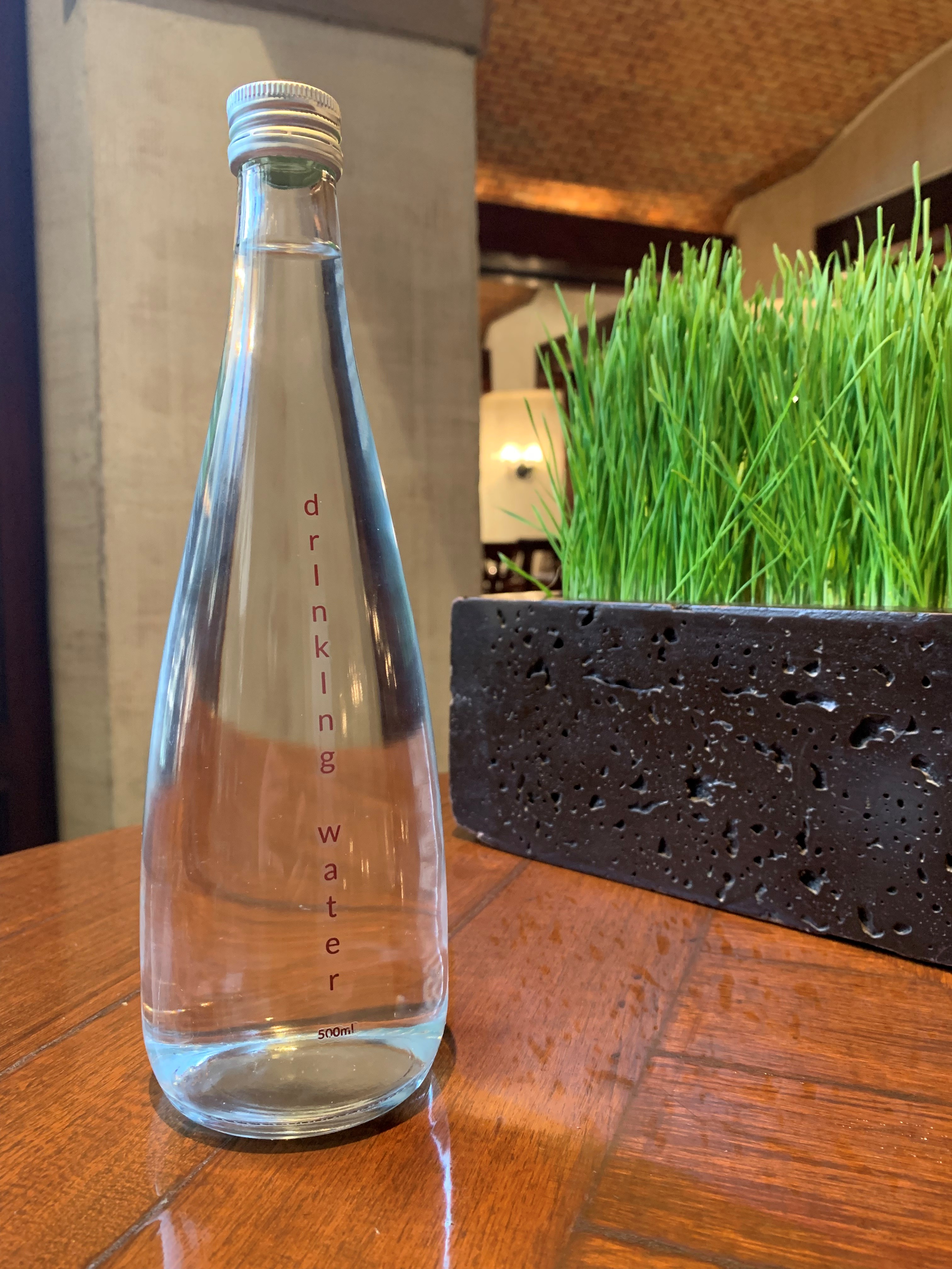 Water Bottle Plant- Free Plastic Hyatt Regency delhi